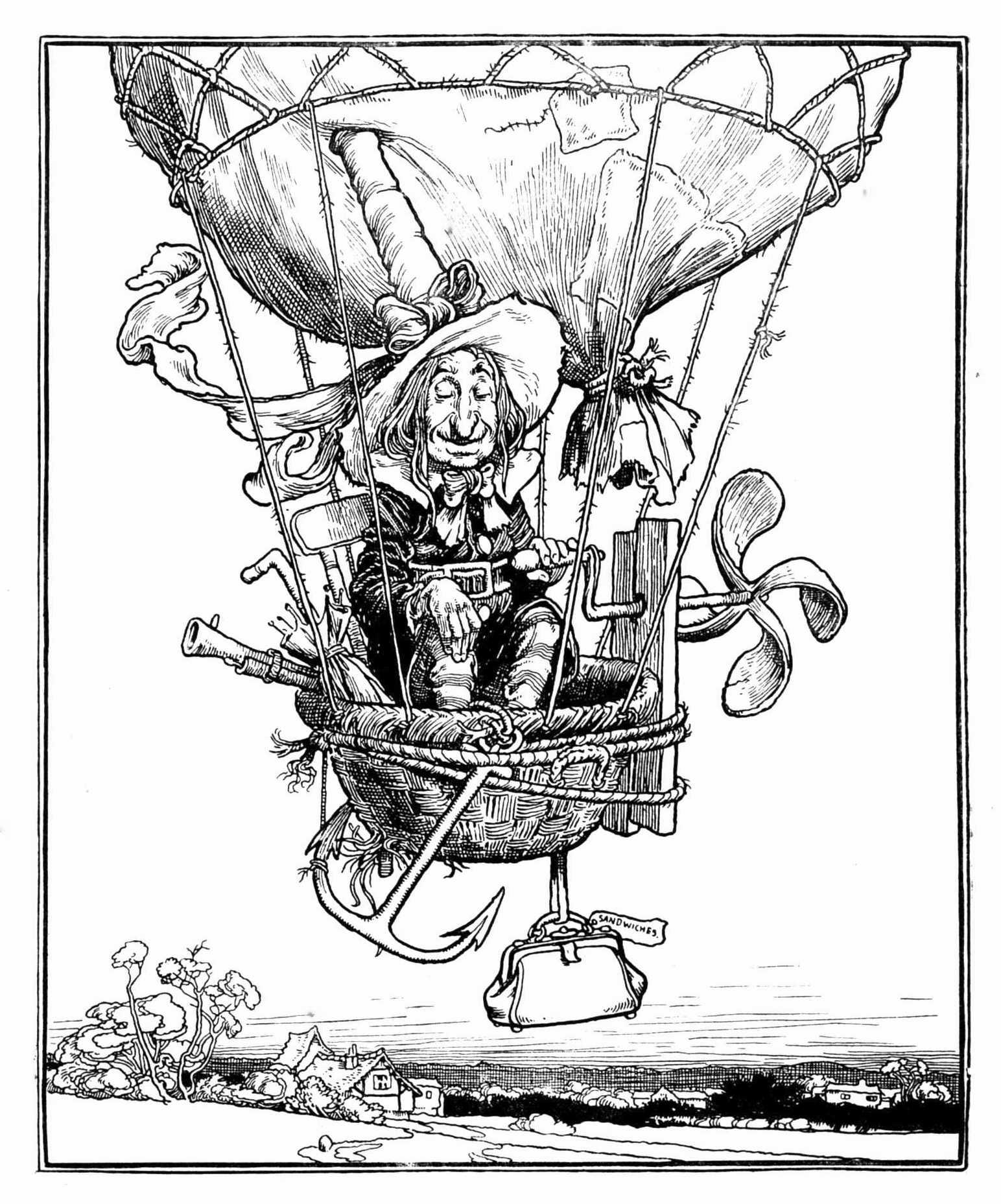 one of the funny machines